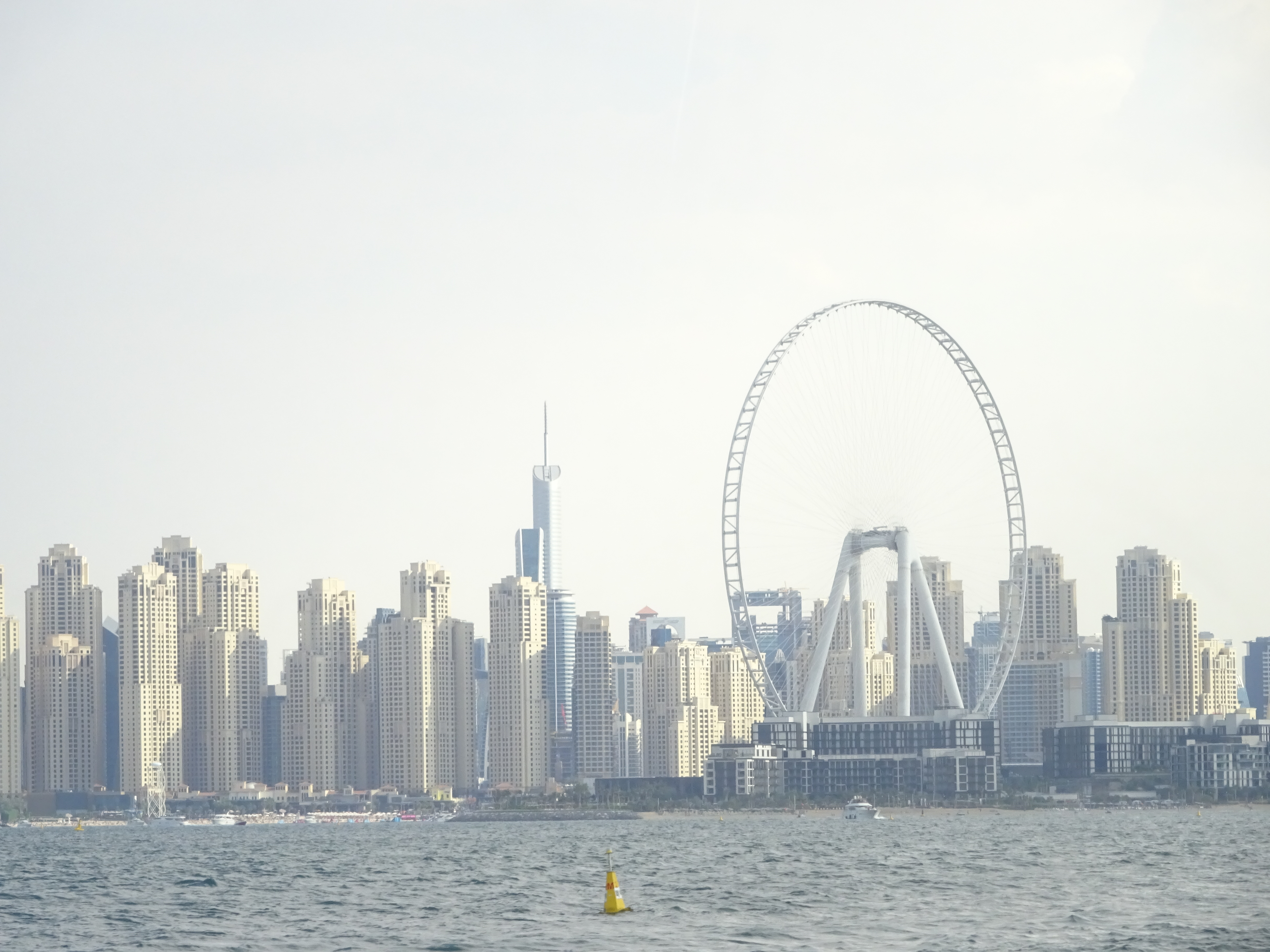 The Ain Dubai observation wheel from the sea, Dubai, UAE.